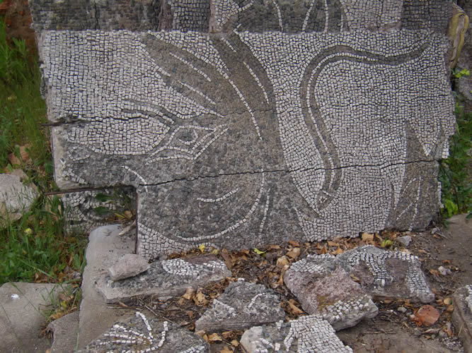 Mosaic fragment in the Terme de Faro,Ostia